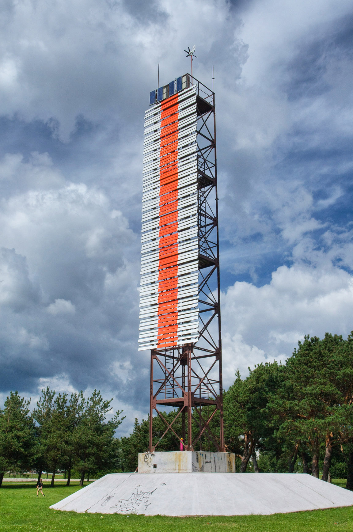 Seedri rear light beacon